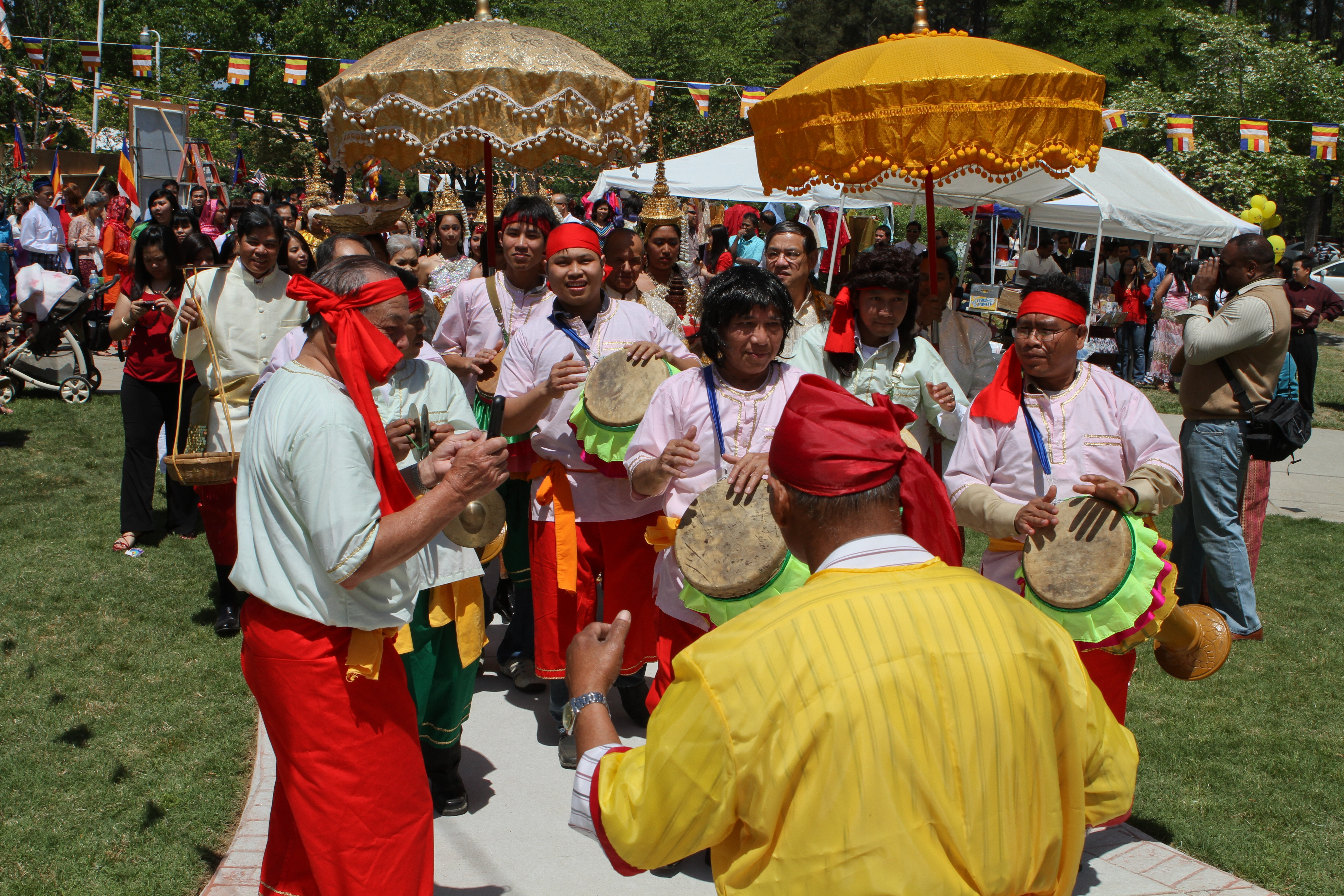 Drummers perform during a Khmer New Year celebration in Lithonia, GA.